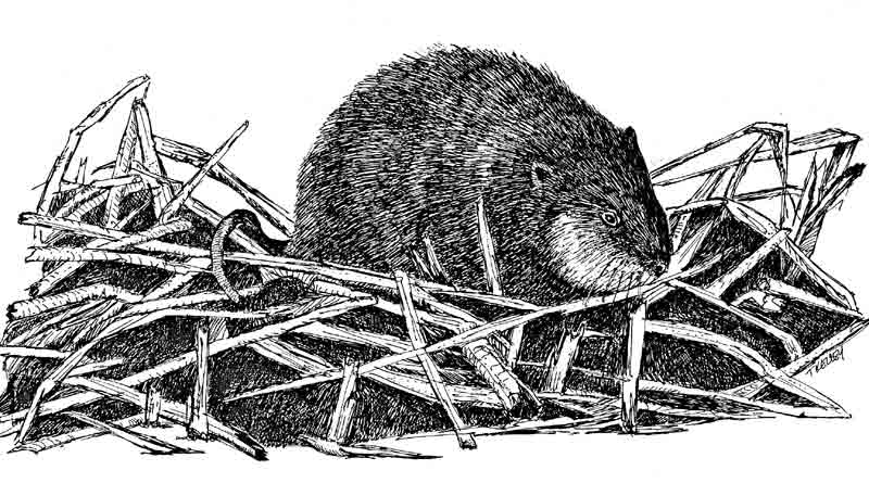 Drawing of a musquash / muskrat in its lair